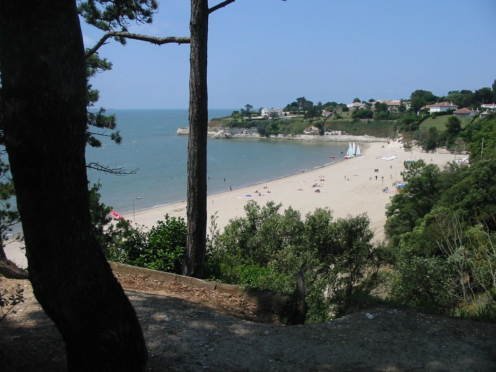 Meschers beach (Charente-Maritime, SW France), the Conche des Nonnes, seen from the cliff boulevard